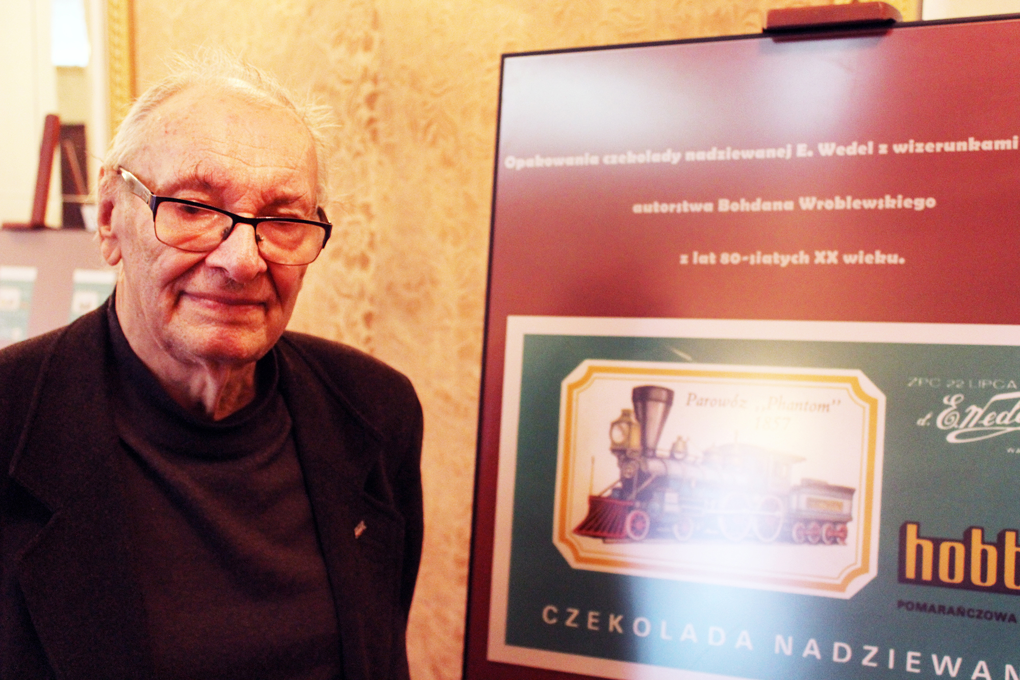 A portrait of polish illustrator Bohdan Wróblewski